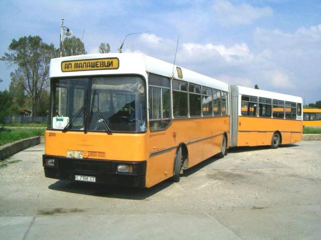 Chavdar 141 articulated bus (#2509 or 2609, reg. C 7104 CT) in Bulgaria.